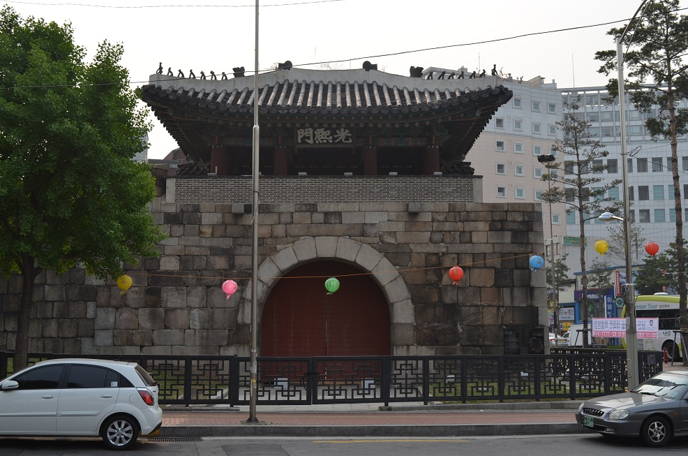 Gwanghuimun Gate, also known as Southeast Gate or Namsomun, Seoul, South Korea. Photographed May 12, 2012.